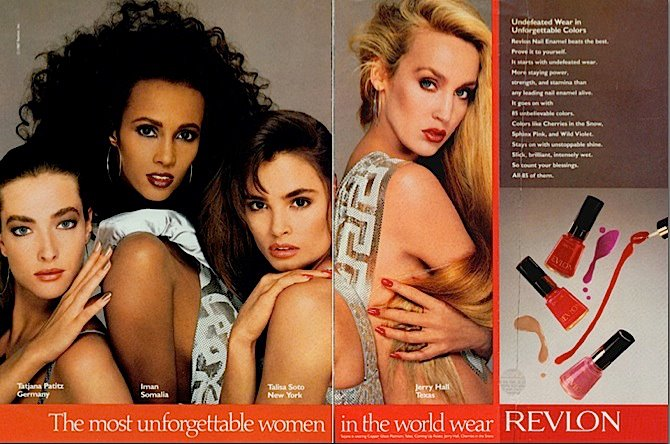 Photograph by Richard Avedon, 1985 Hand-enameled chainmail by Douglas Ferguson Styled by Julie C Britt Hair by Suga Makeup by Ariella